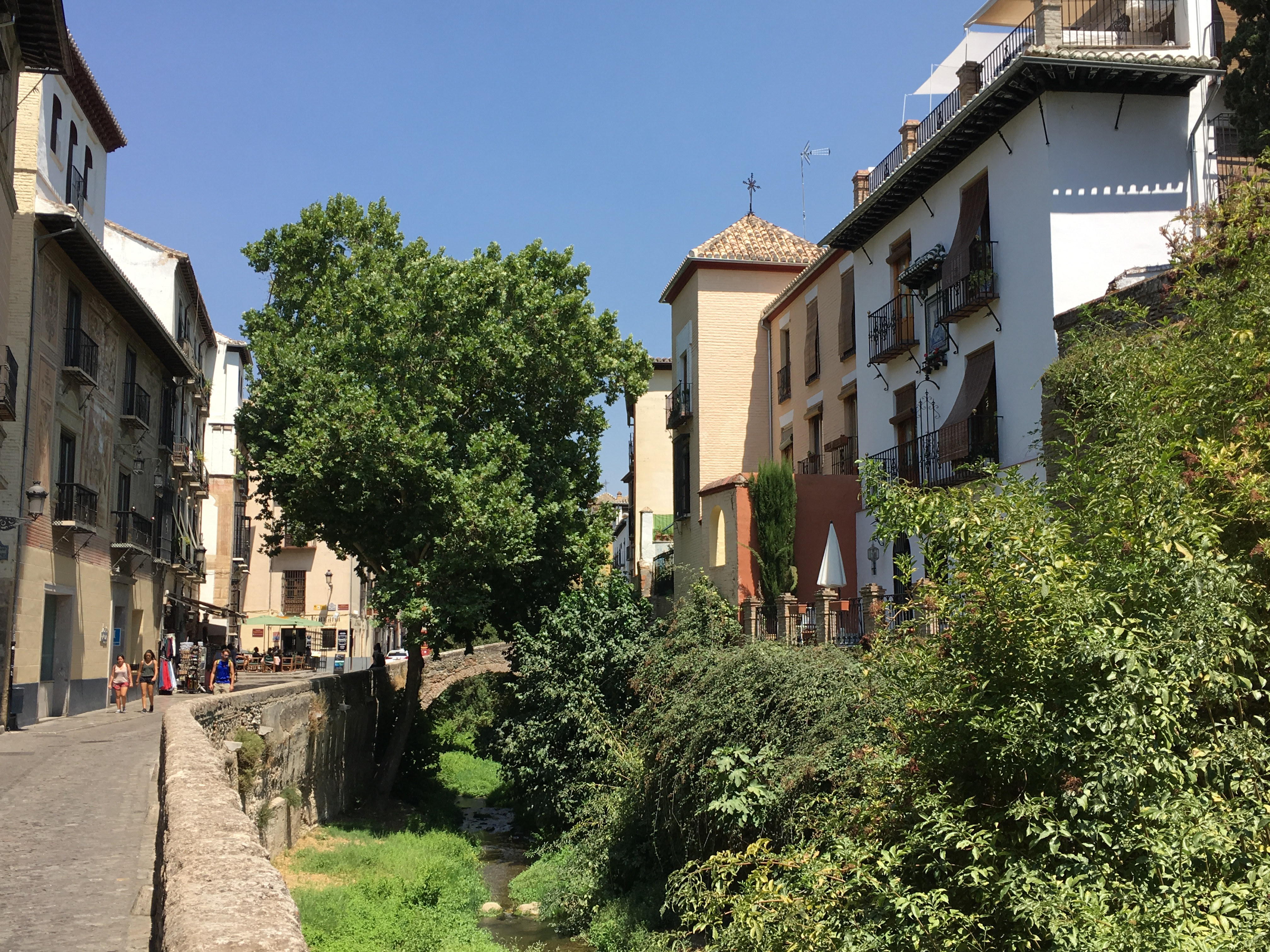 Darro river, Granada (Spain)